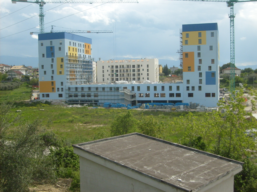 Mediterranean Village Construction April 2009